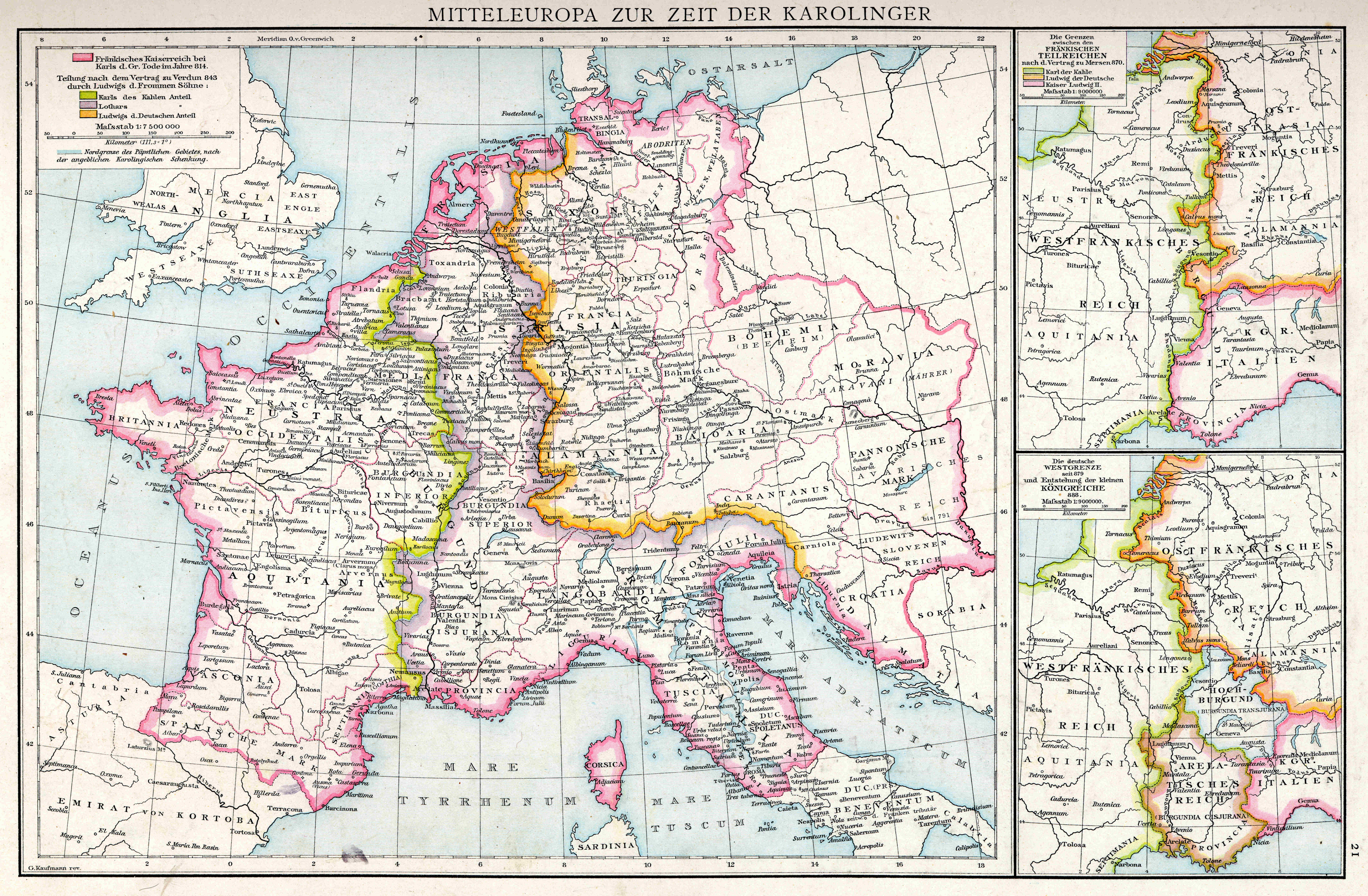 Plate 21 of Professor G. Droysens Allgemeiner Historischer Handatlas, published by R. Andrée.